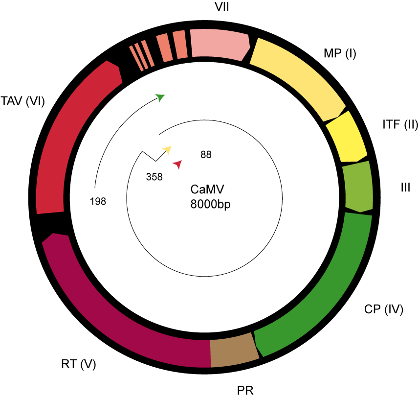 The 35S RNA is particularly complex, containing a highly structured 600 nucleotide long leader sequence with six to eight short open reading frames (ORFs) (Fütterer et al., 1988; Pooggin et al., 1998). This leader is followed by seven tightly arranged longer ORFs that encode all the viral proteins (reviewed by Hohn and Fütterer, 1997). The mechanism of expression of these proteins is very special. The ORF VI protein (encoded by the 19S RNA) controls translation reinitiation of major open reading frames on the polycistronic 35S RNA. TAV function depends on its association with polysomes and eukaryotic initiation factor eIF3 (Park et al., 2001). ORF1 – Movement Protein (MP P03545) ORF2 – Aphid/Insect Transmission Factor (ATF, P03548) ORF3 – Virion-associated protein (VAP, P03551). ORF4 – Capsid Protein (CP, P03542) ORF5 – pro-pol (P03554): Protease, bifunctional Reverse Transcriptase and RNaseH ORF6 – Transactivator/viroplasmin (TAV, P03559) ORF7 – Unknown (dispensable?) Created to replace an image on en Image:Camvmap.gif